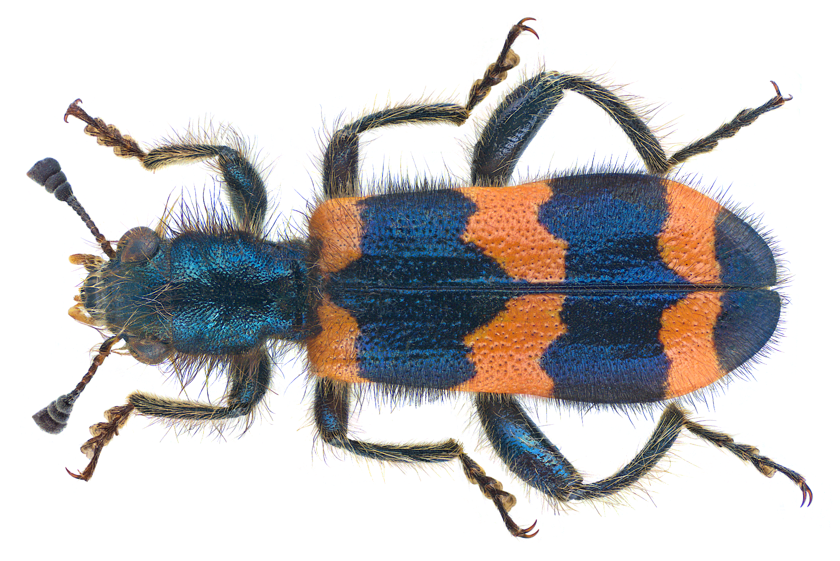 Family: Cleridae Size: 10.2 mm ( 9.0 to 16.0 mm) Distribution: Europe without the far north, North Africa, Asia Minor Ecology: development in the nests of bees, the beetles are found on flowers Location: Switzerland, Graubuenden, Ilanz, Schluein, 700 m leg.det. U.Schmidt, 30.VI.2004 Photo: U.Schmidt, 2016